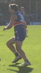 Brian Lake playing for Western Bulldogs v. Sydney Swans at the SCG, 2008.